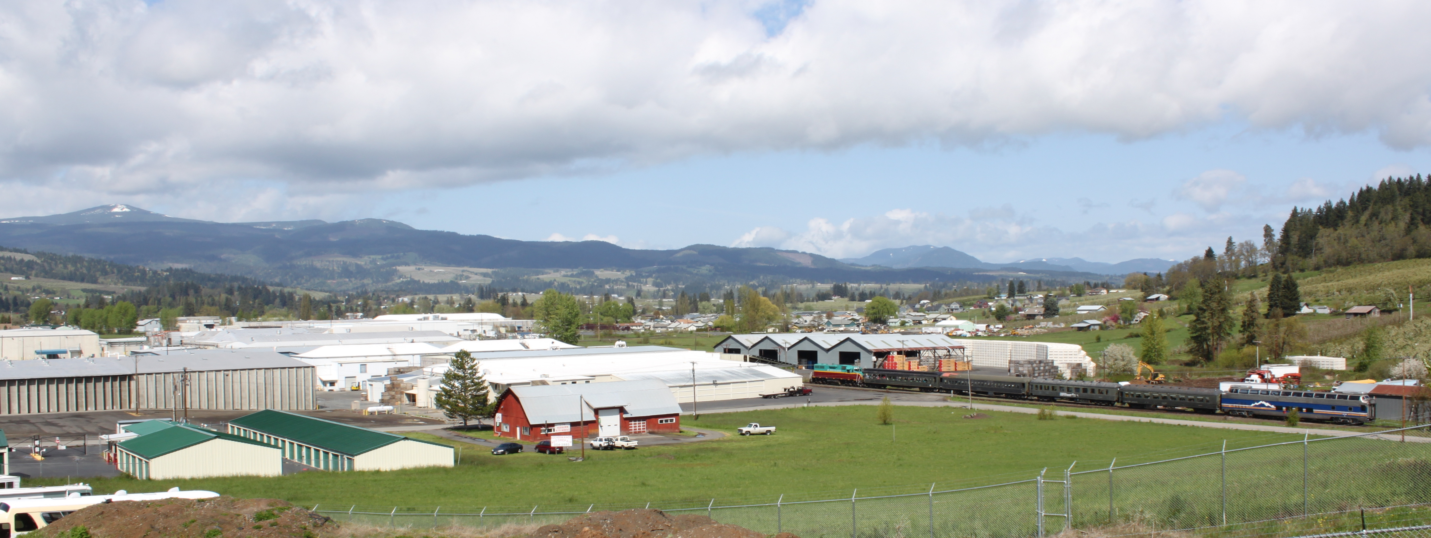 View of Odell, Oregon with the Mount Hood Railroad running through.